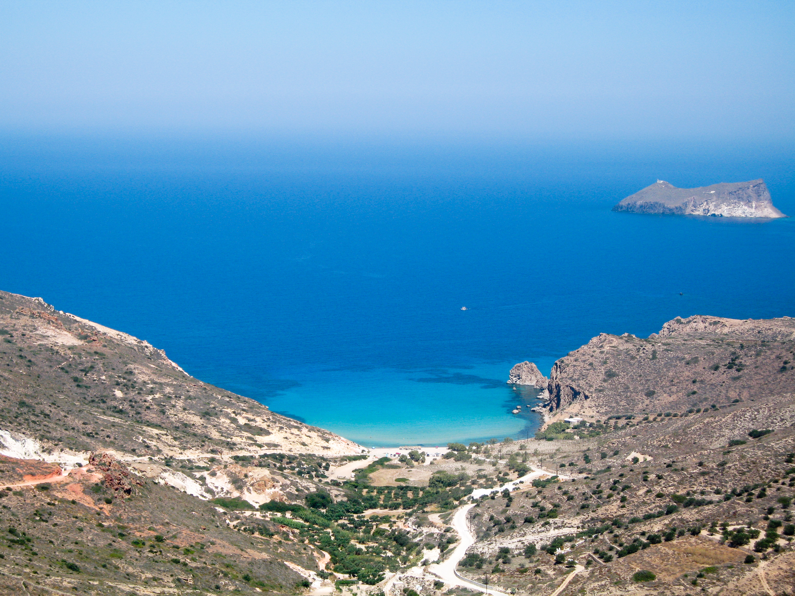 Milos Island, Greece